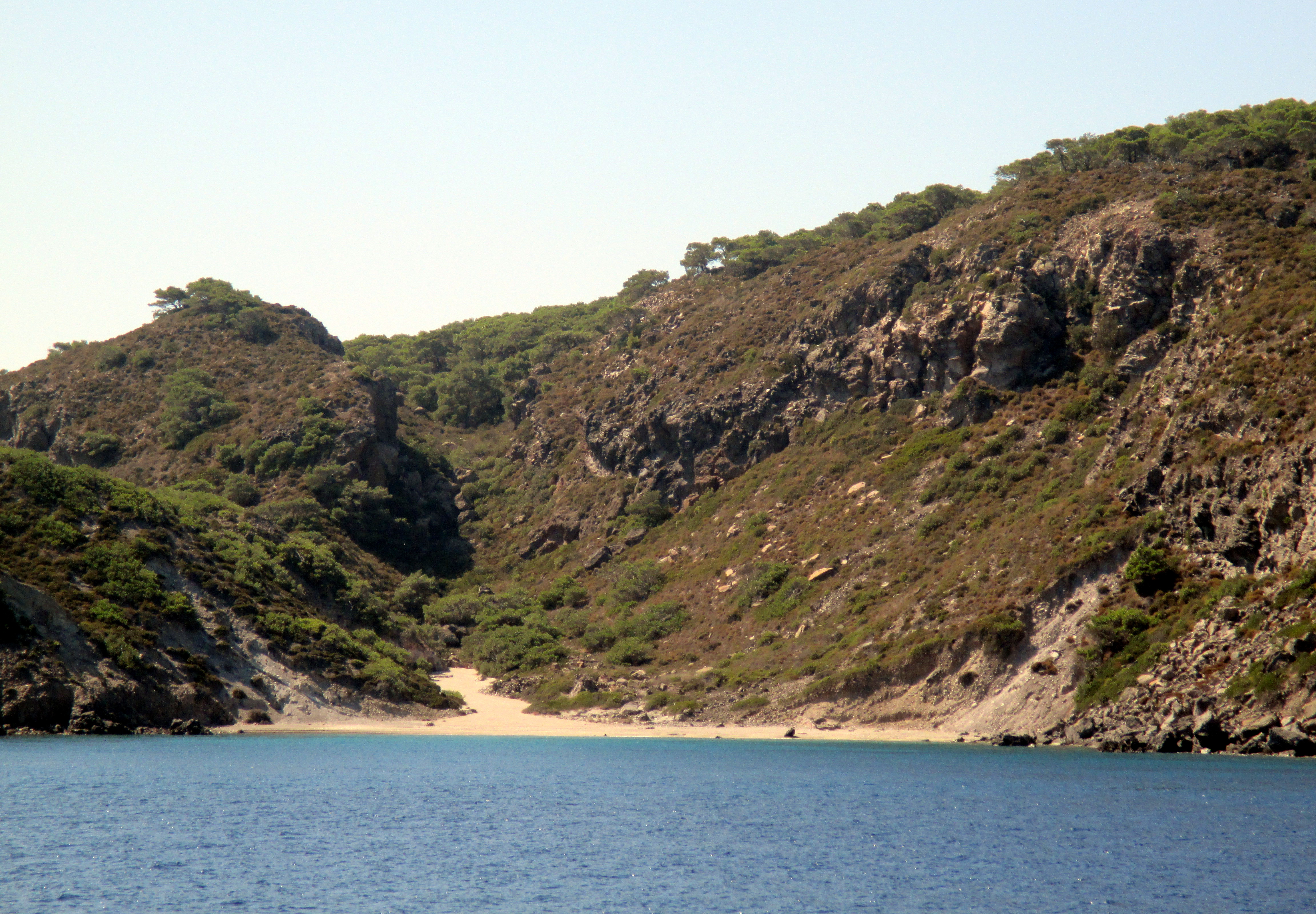 A beach in the NE coast of Gyali island, Dodecanese, Greece.